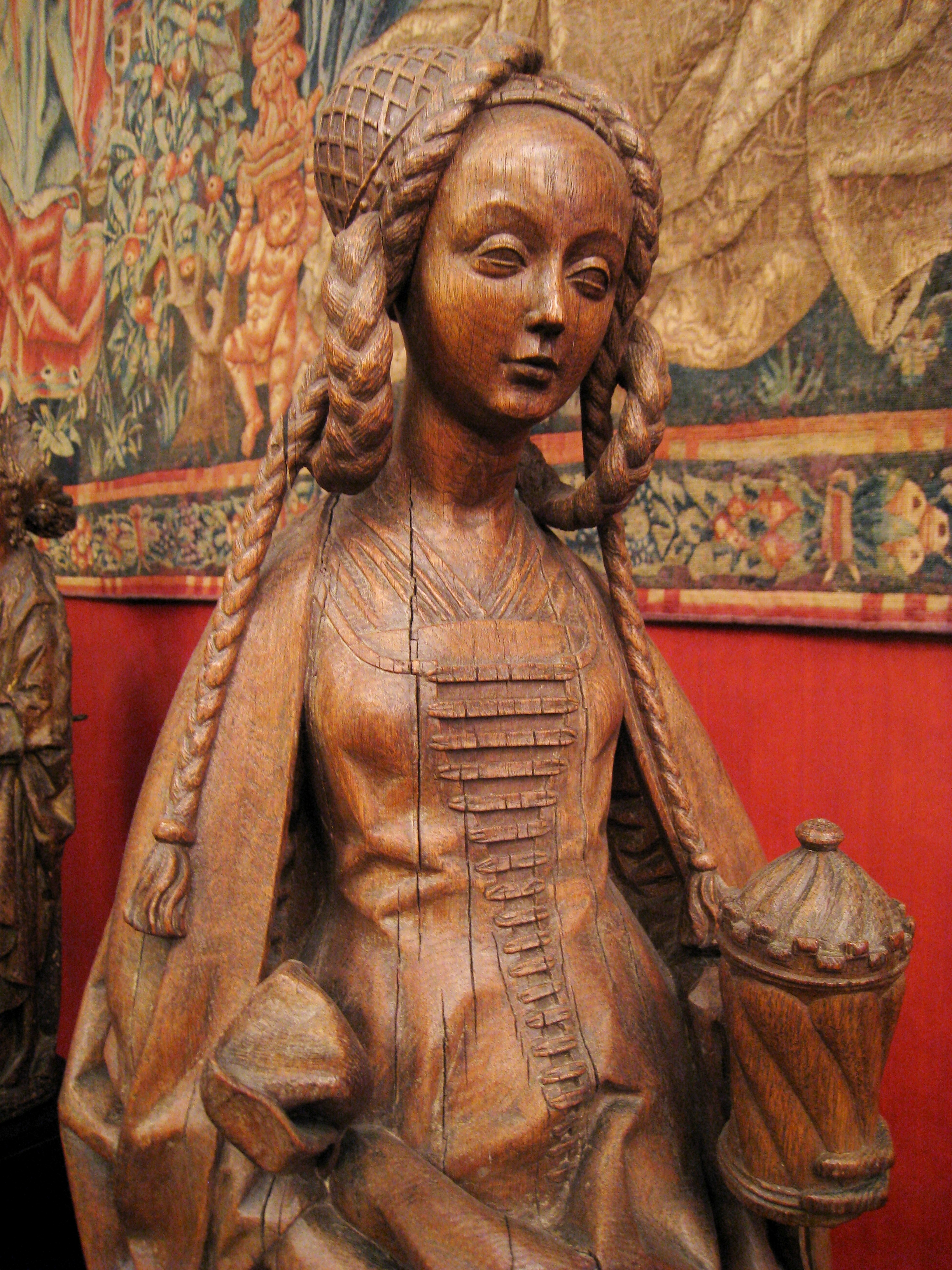 Hôtel de Cluny, Paris, France - statue. This work is from the middle ages, and the museum imposed no restrictions on photography (except for prohibiting flash) both in writing and when I explicitly asked. Thus the original work itself is free from intellectual property restrictions.